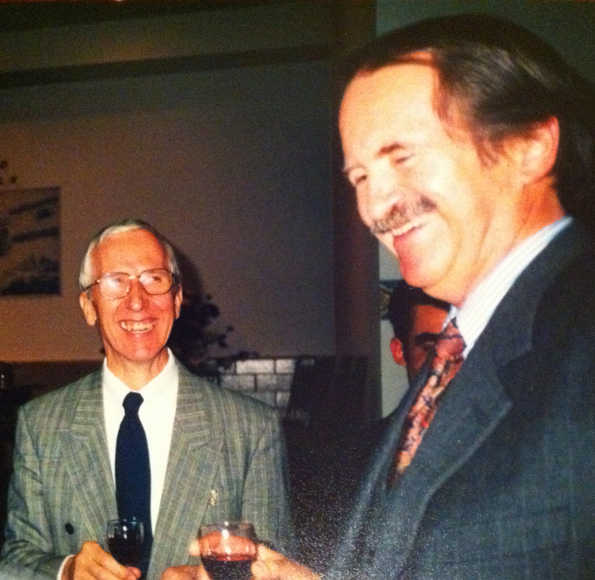 Jean-Claude Rodet & Dom Duarte de Bragança